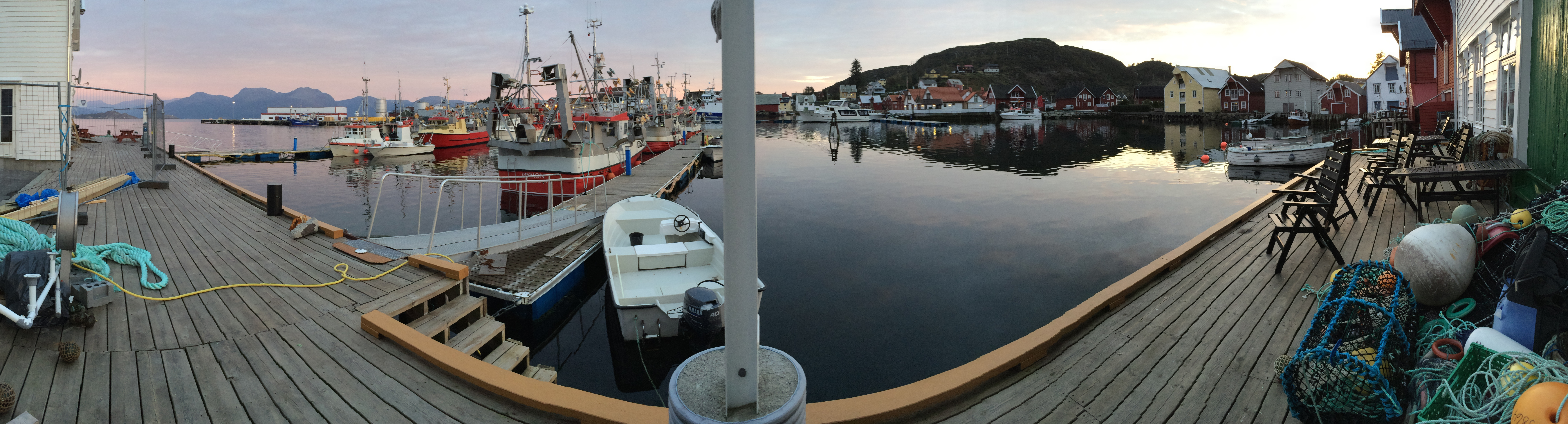 Fold-out-panorama of Kalvåg harbour in Bremanger municipality in Sogn og Fjordane County, Norway. (iPhone panoramic photo, distortion may occur in details and continuity.)